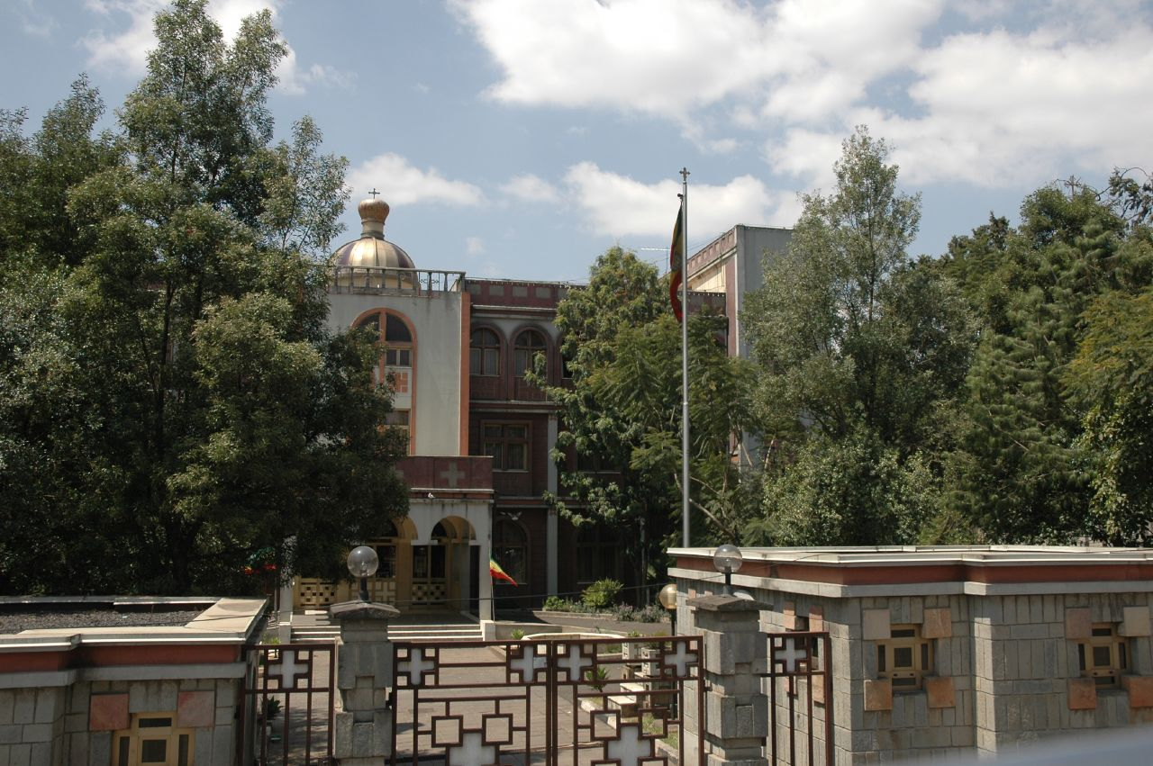 Siege of Ethiopian Orthodox Church, Addis Abeba, Ethiopia